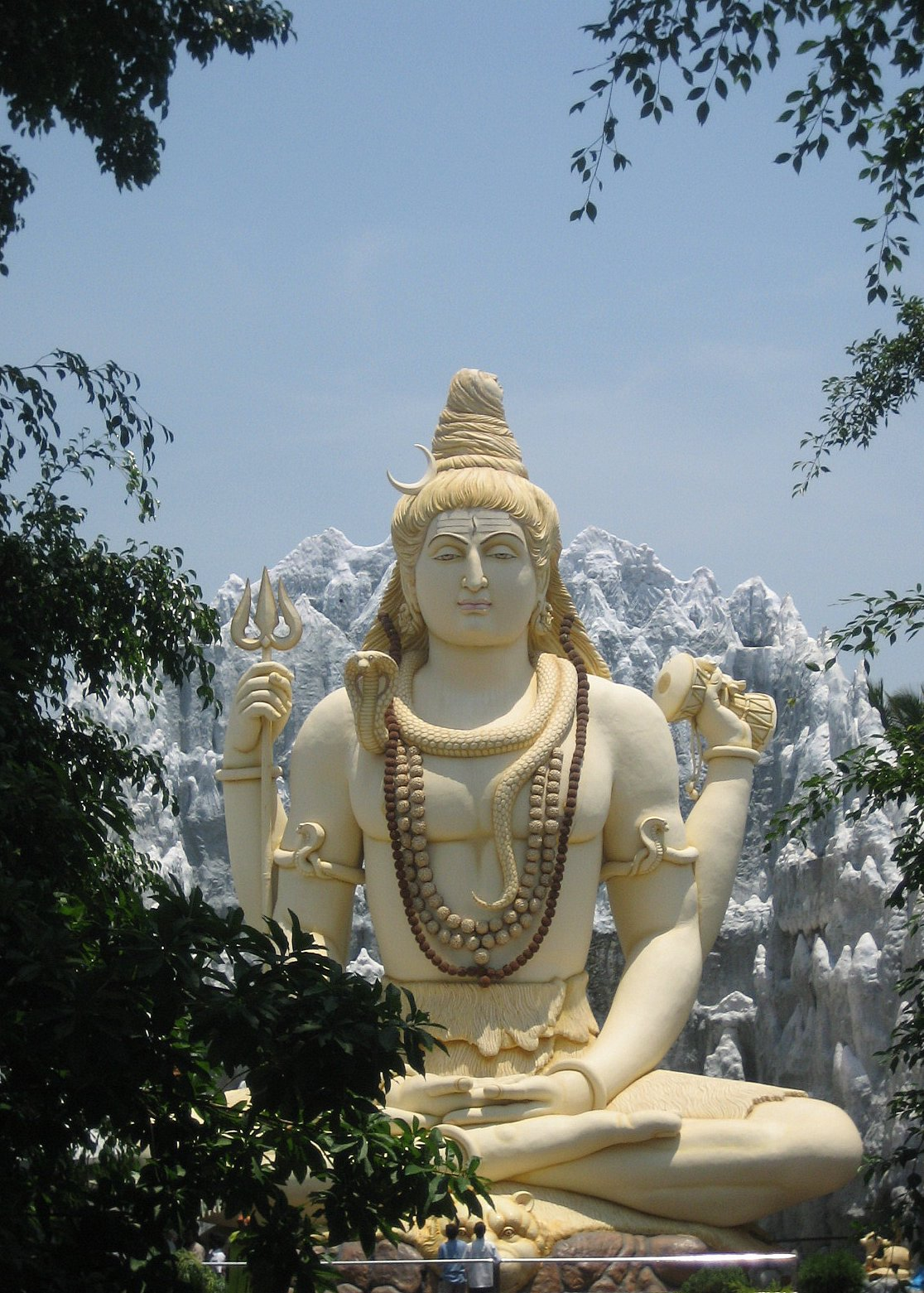 this 65ft. tall shiva is located in a temple accessible through a bangalore department store.